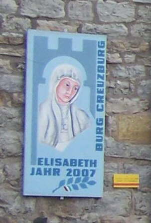 Advertisement for the Elisabeth of Thuringia event in 2007.